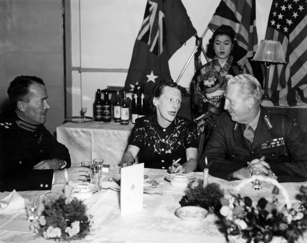 Officers Club opened recently on Etajima, headquarters of the British Commonwealth Occupation Force, Japan. Shows Mrs. Macauley chatting to General Robertson (right) and Brigadier A.R. Garrett.